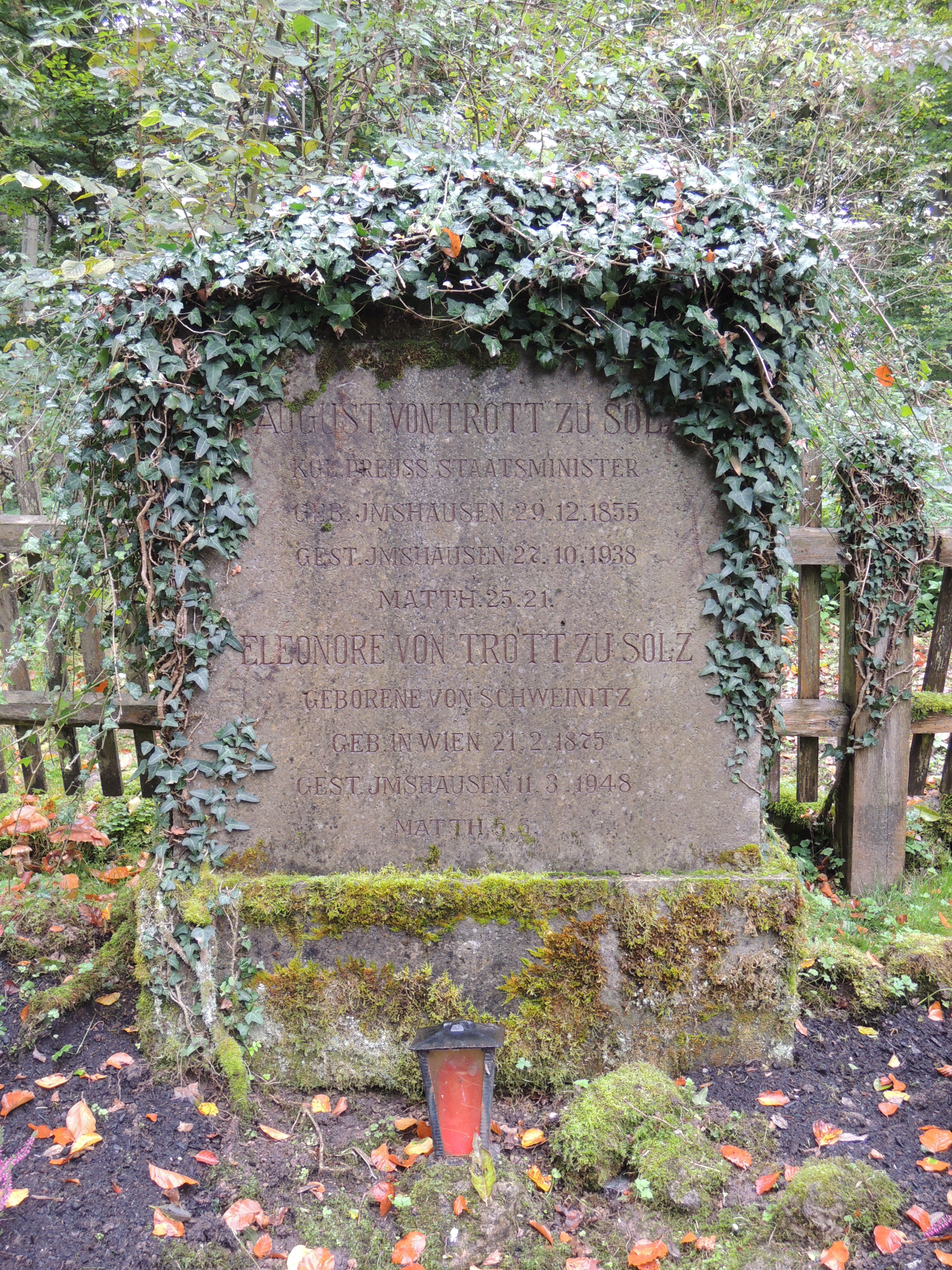 Gravestone of the von Trott family found at Trottenfriedhof near the town of Imshausen (Bebra)